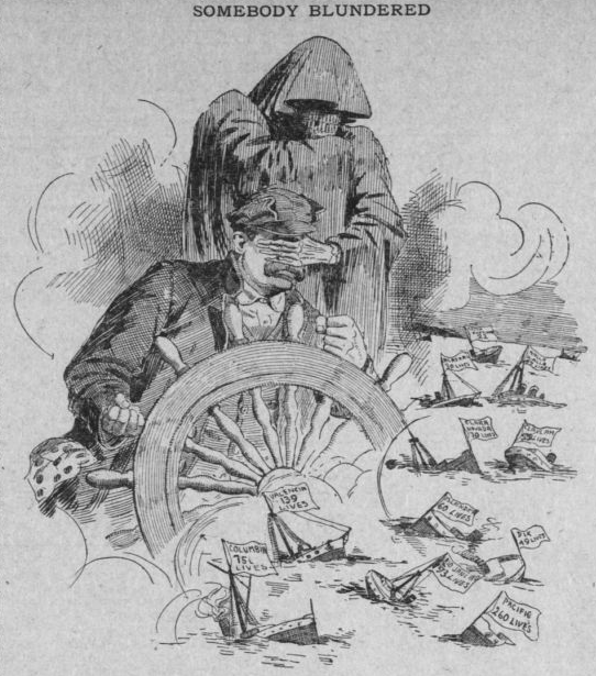 This political cartoon was a response to the sinking of SS Columbia in 1907. American steamships along the Pacific coastline were notorious for alleged safety violations and large death tolls. The article represents other wrecks leading up to the sinking of Columbia, including the Dix sinking in Seattle, Valencia sinking on Vancouver Island, City of Rio de Janeiro sinking in San Francisco and the Pacific sinking in the Strait of Juan de Fuca.